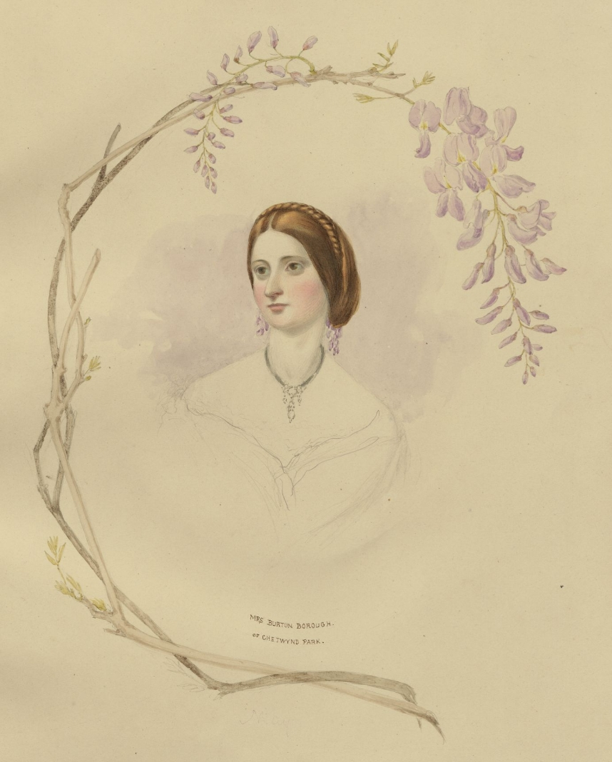 Unfinished portraits of Shropshire Ladies by Lady Mary Leighton. Mrs Burton Borough of Chestwynd Park